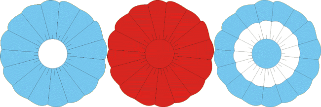 The three historic versions of the Roundel of Argentina. They were the emblems used between 1807 (during the British invasions of the Río de la Plata) and 1812, when the first Government of Argentina officialized the adoption of the lightblue and white insignia that remains nowadays.